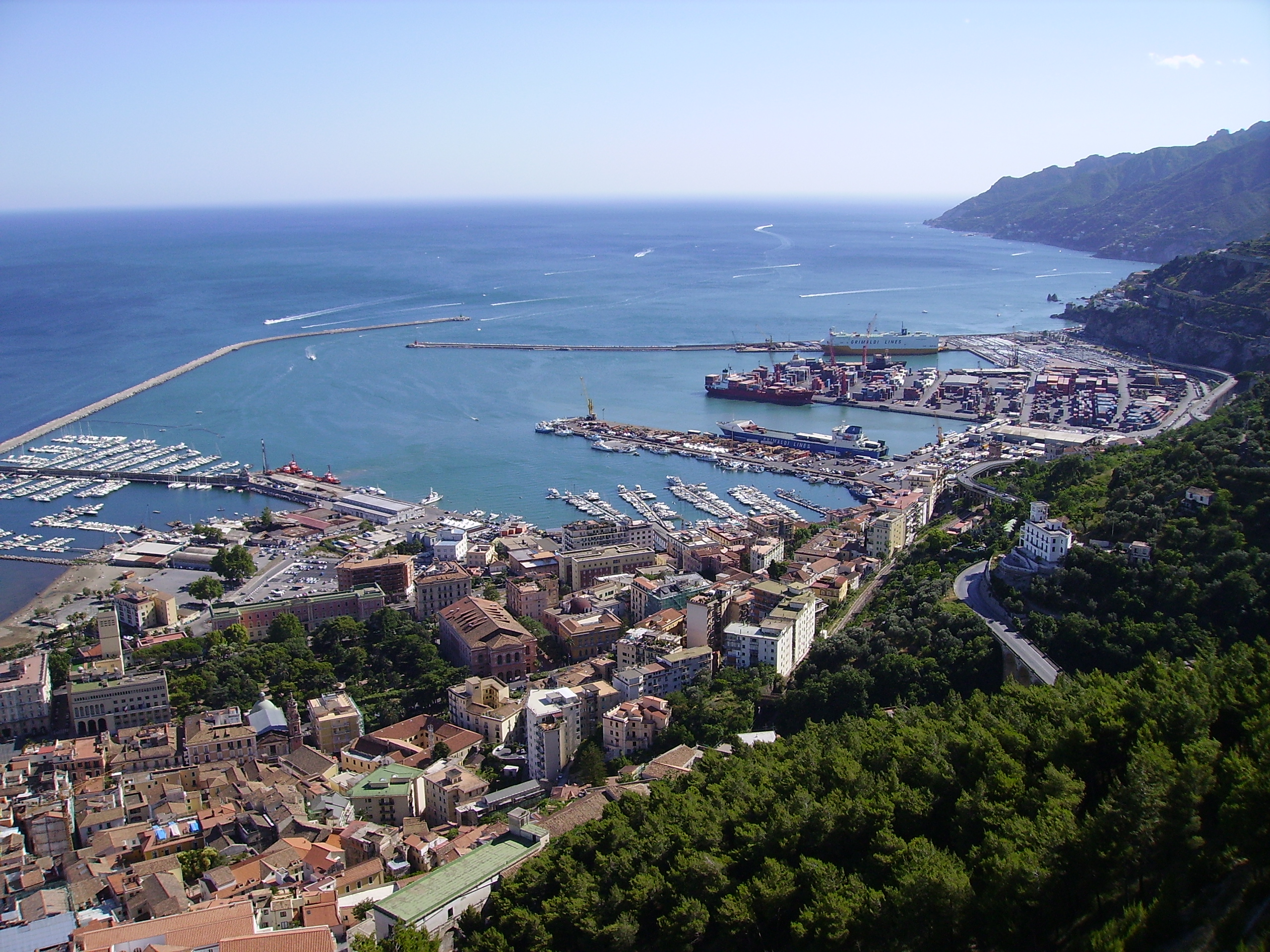 The ports of Salerno; views from castle of Arechi. Salerno, Italy